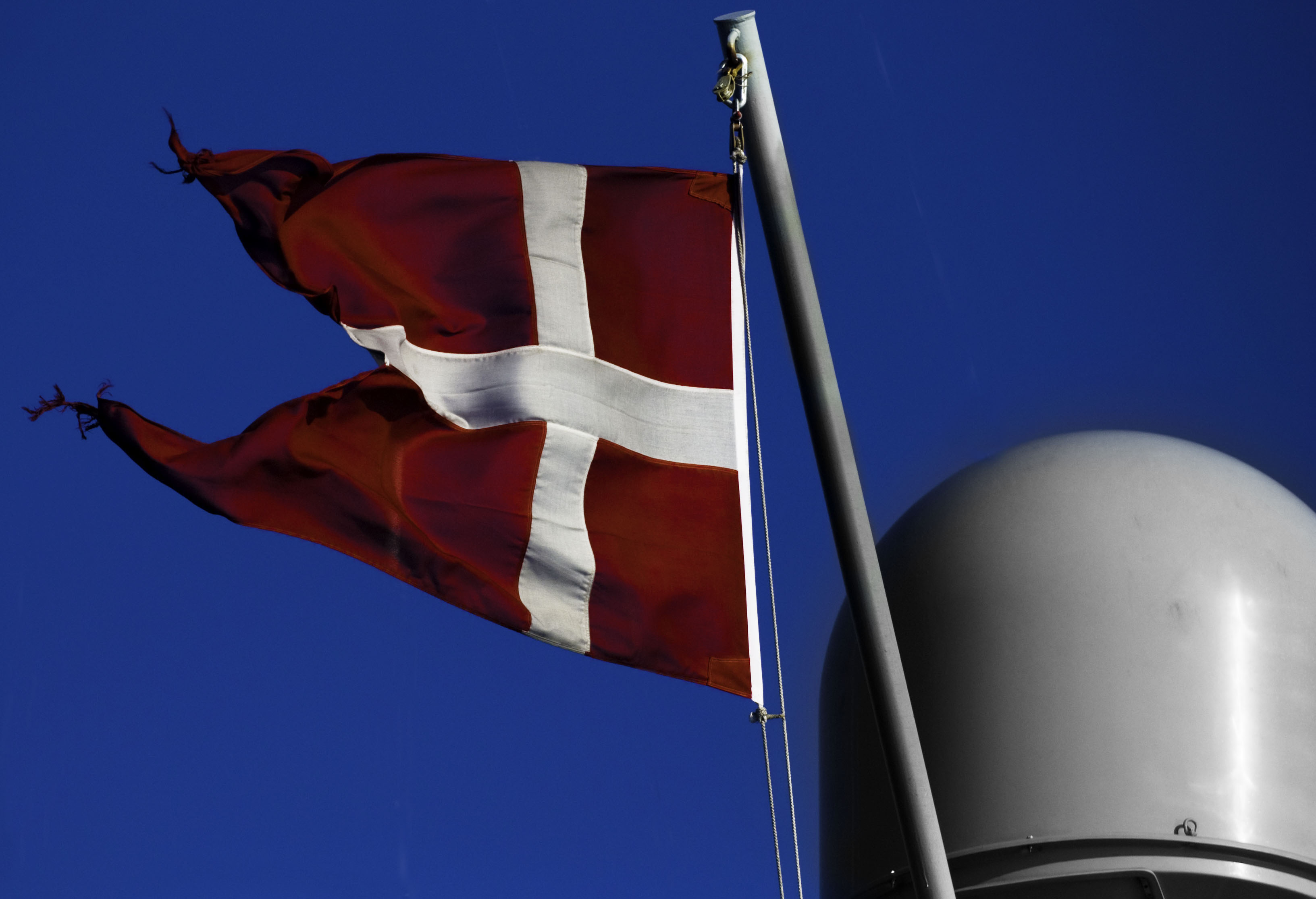 Gaff flag from the Danish NavyDansk: Flag under gaflen i det danske søværn